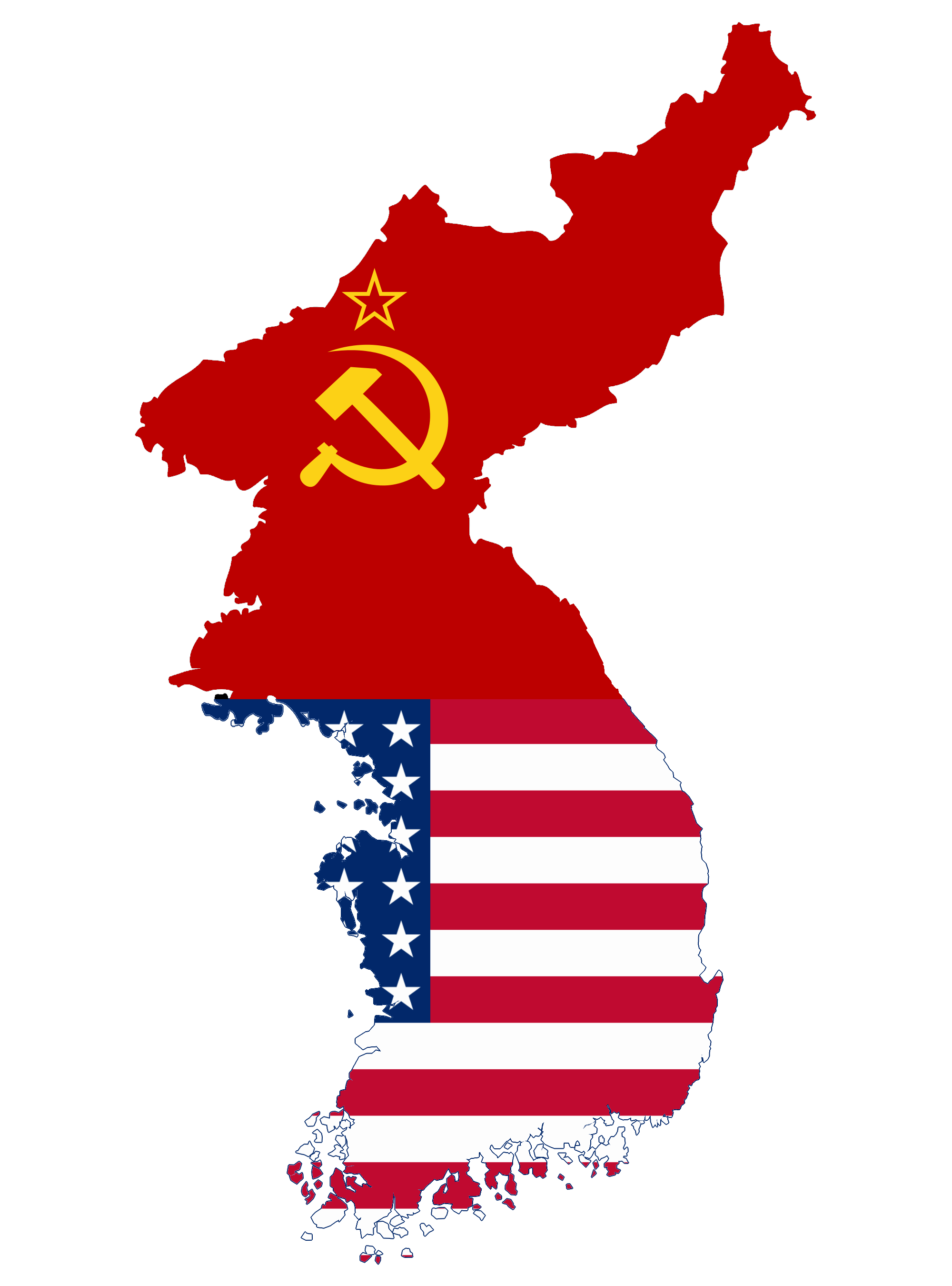 Flag map of Divided Korea (1945 - 1950)